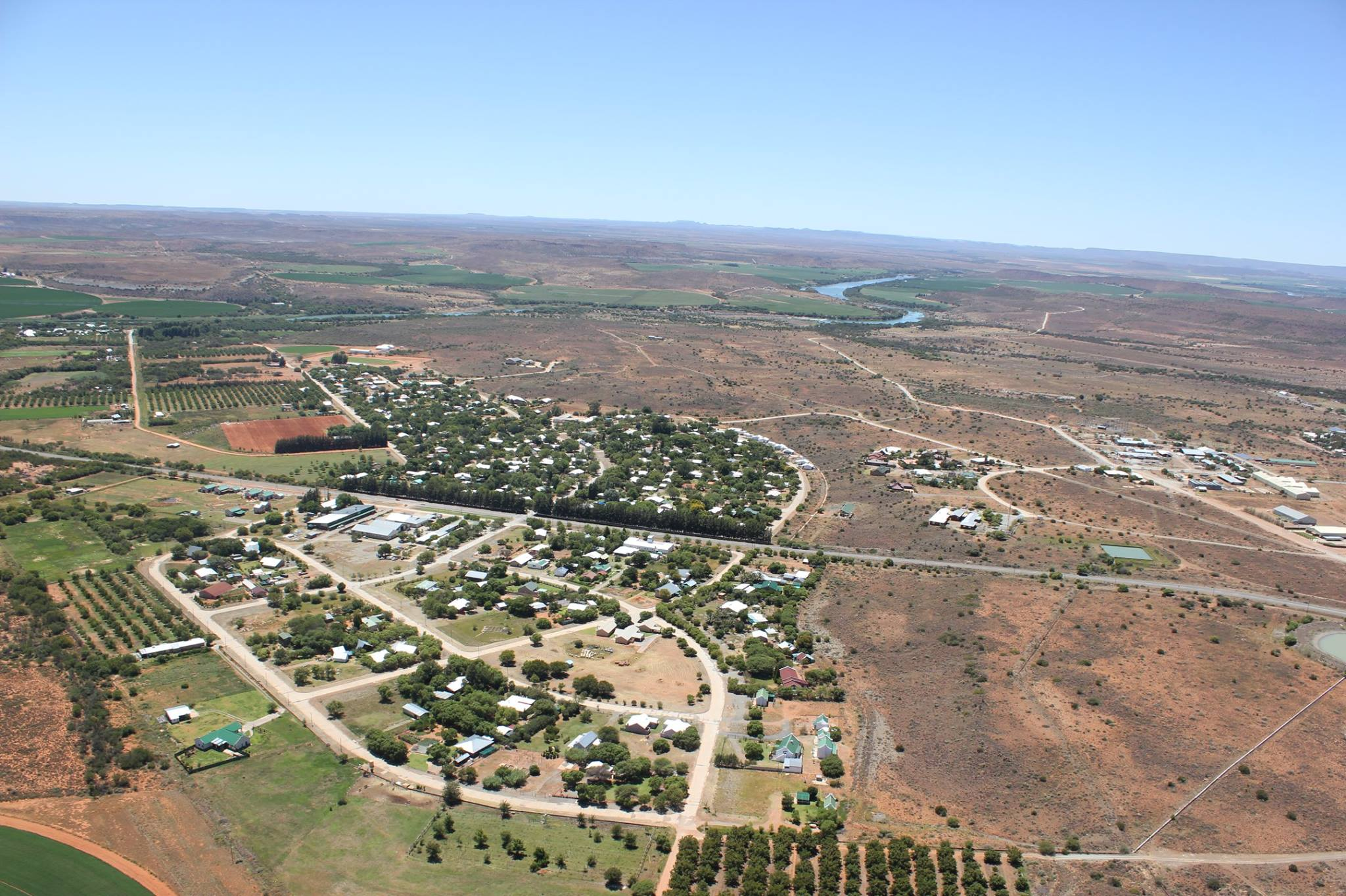 Aerial view of Orania-Oos and Orania-Wes with part of Kleingeluk and surrounding farmland.